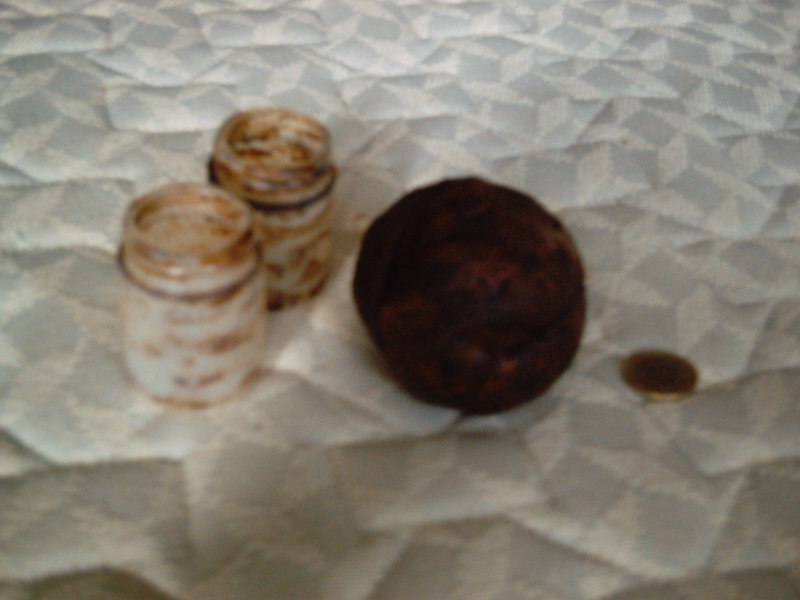 opium ball about 200 grams